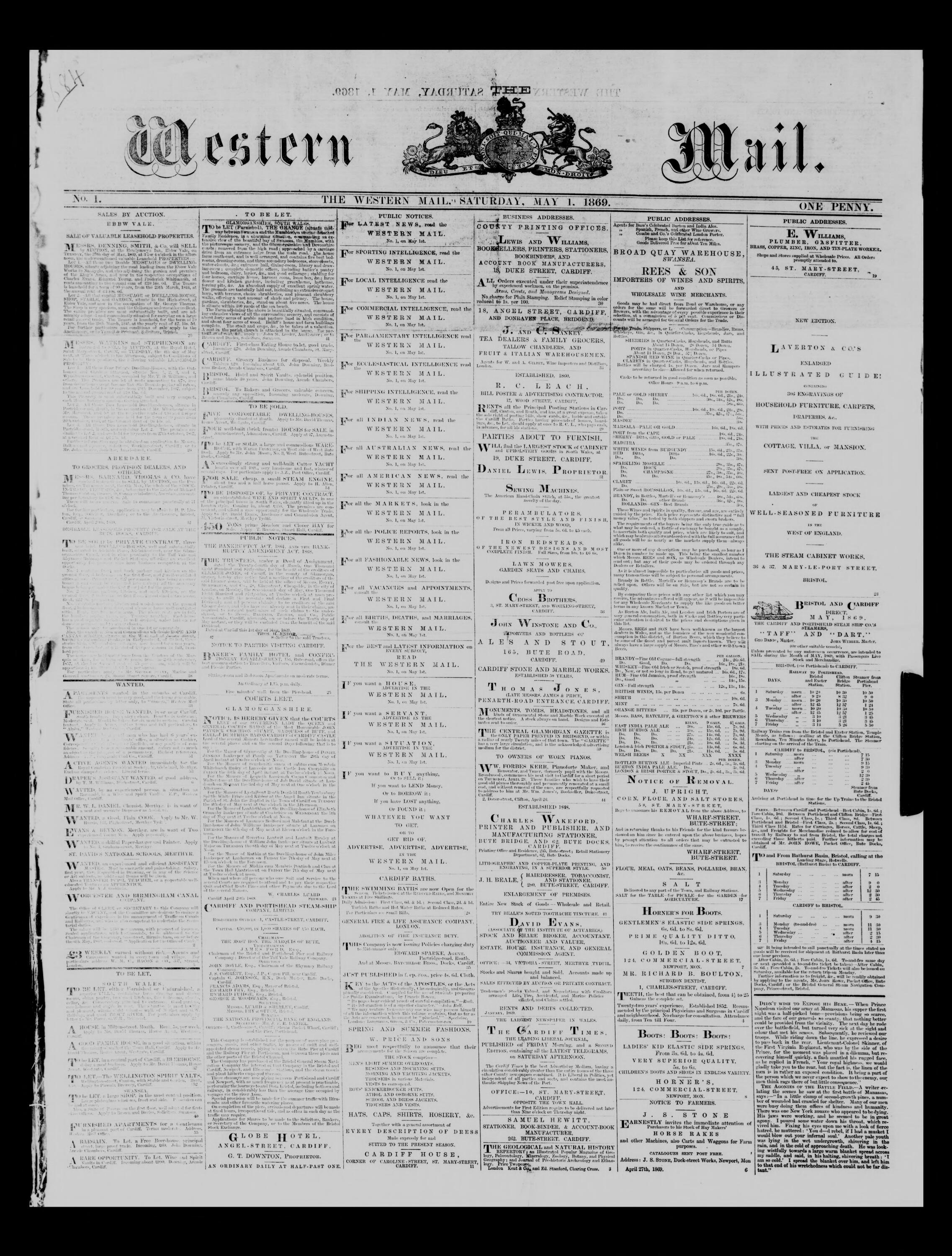 Front page of the earliest surviving copy of the Welsh newspaper Western Mail